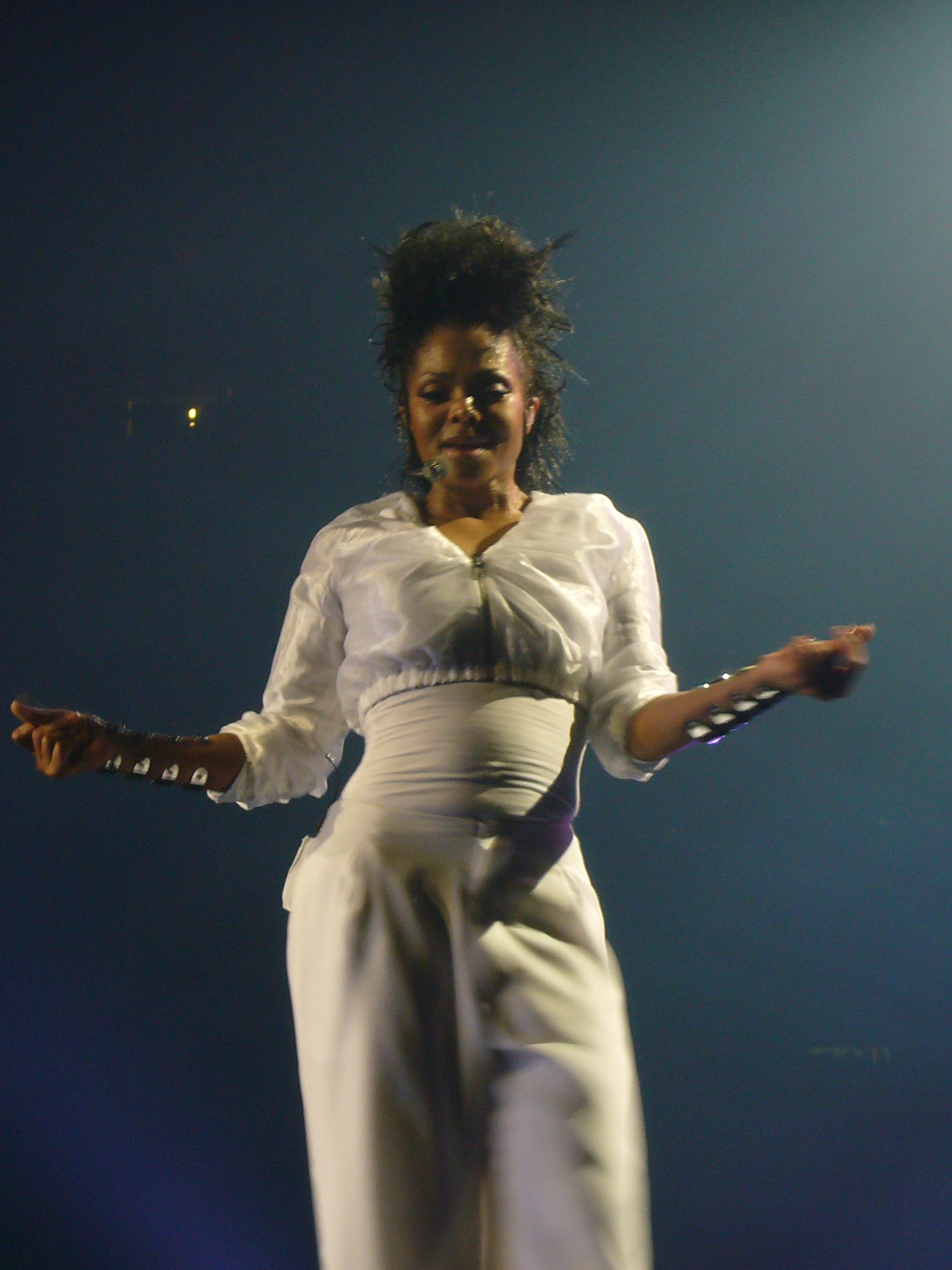 P1070177 (Janet Jackson Live in Concert on the Rock Witchu Tour at GM Place, Vancouver, British Columbia, Canada September 10, 2008)